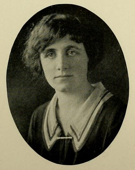 Mildred Codding's Wellesley College class of 1924 yearbook photograph